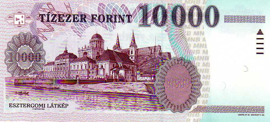 10000 Hungarian forint (1997) - reverse. Picture: Esztergom, the birthplace of King Stephen I, capital of Hungary under his reign, with the Basilica.